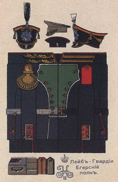 Dress uniform His Majesty Lifeguard Jaeger Regiment about 1910.